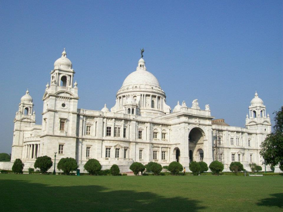 Victoria Memorial Hall, a memorial building dedicated to Victoria, Queen of the United Kingdom, located in Kolkata, India